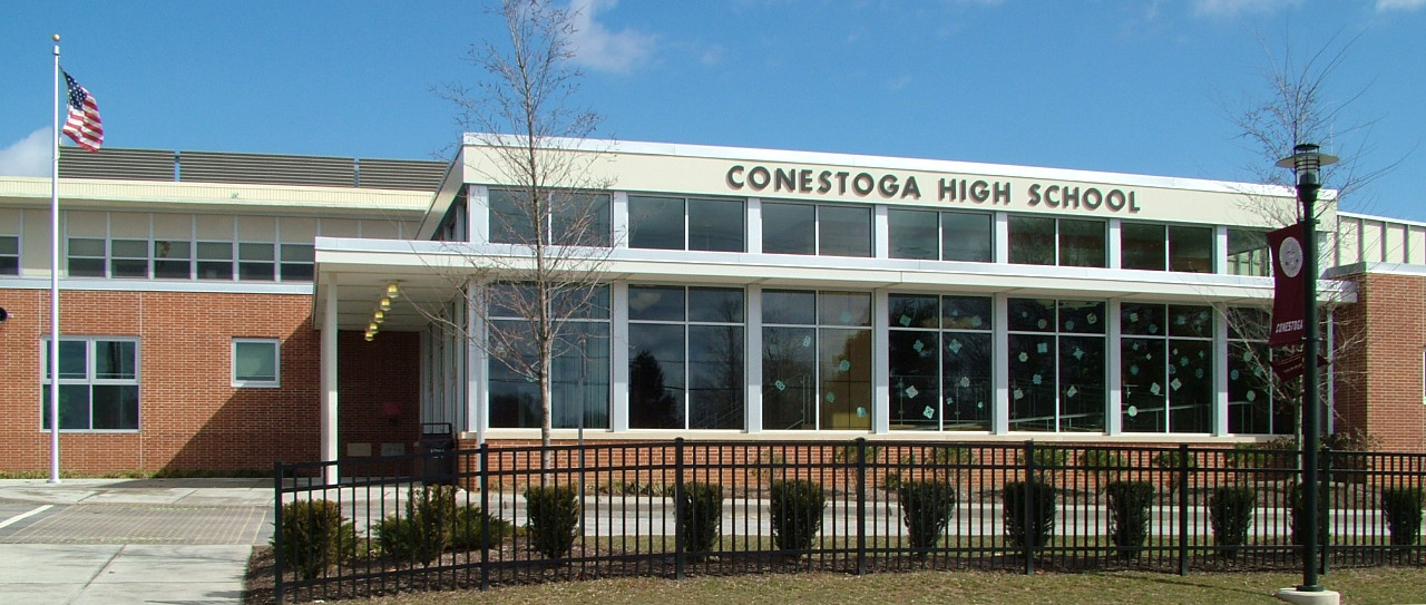 Exterior Photograph of Conestoga High School, Berwyn, PA March 3, 2006